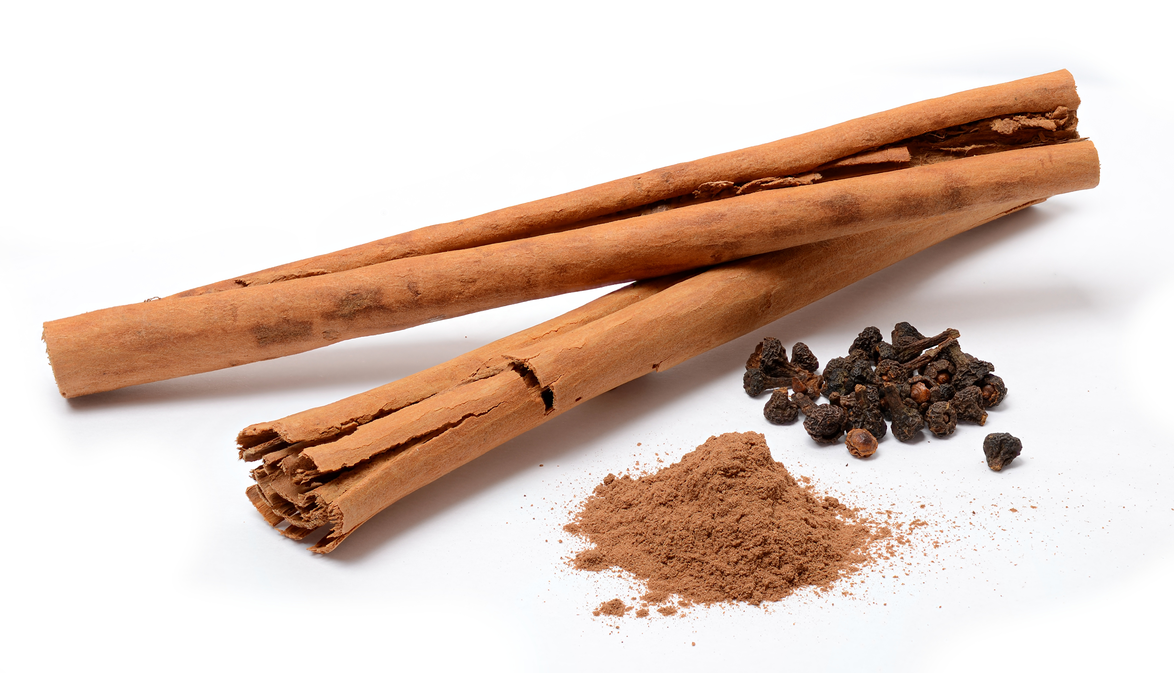 Cinnamon: sticks (ceylon cinnamon from Sri Lanka), powder, and flowers. Created from 31 images stacked with CombineZP.